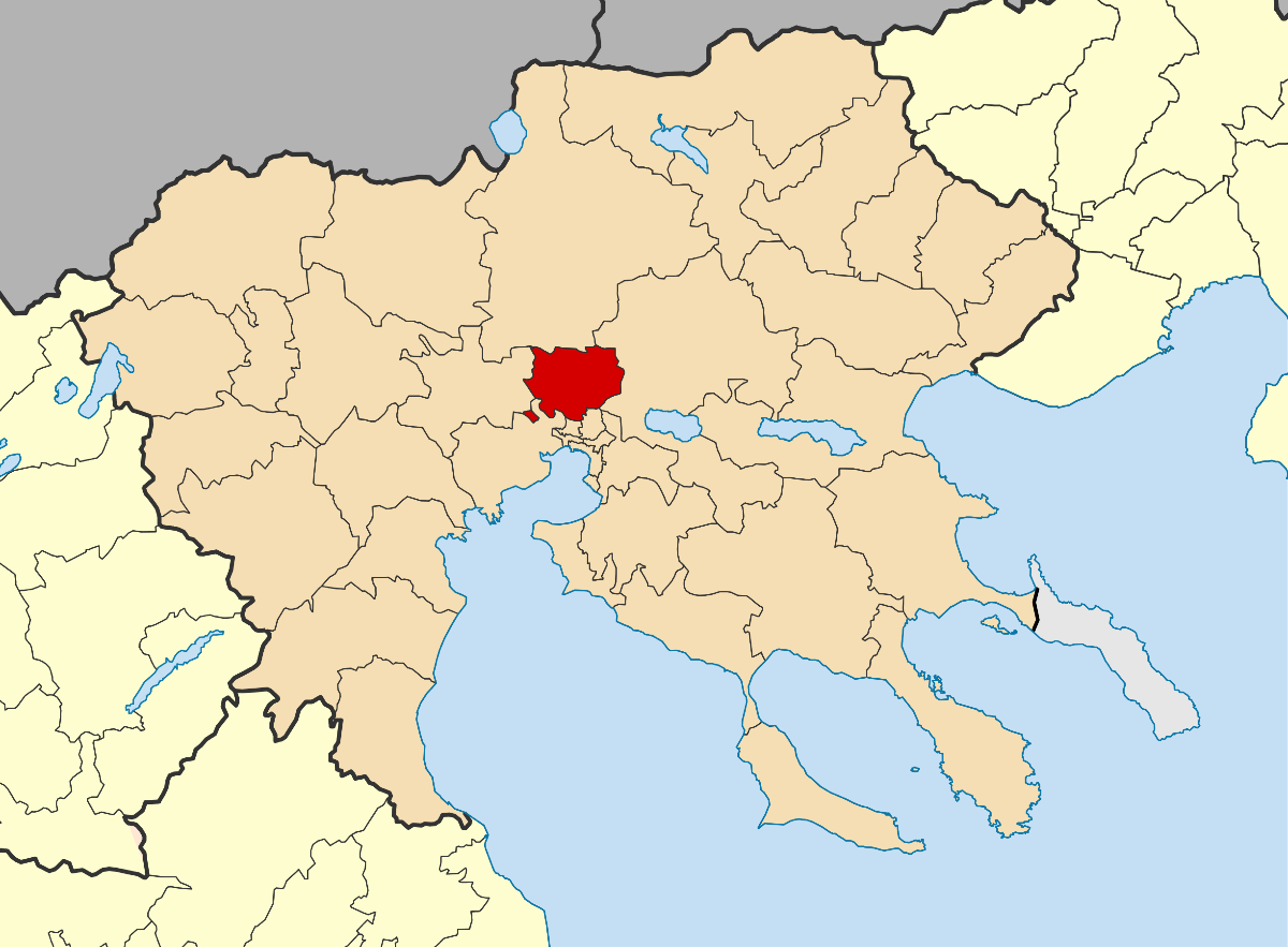 Locator map for Oreokastro municipality in Greek region Central Macedonia (2011)